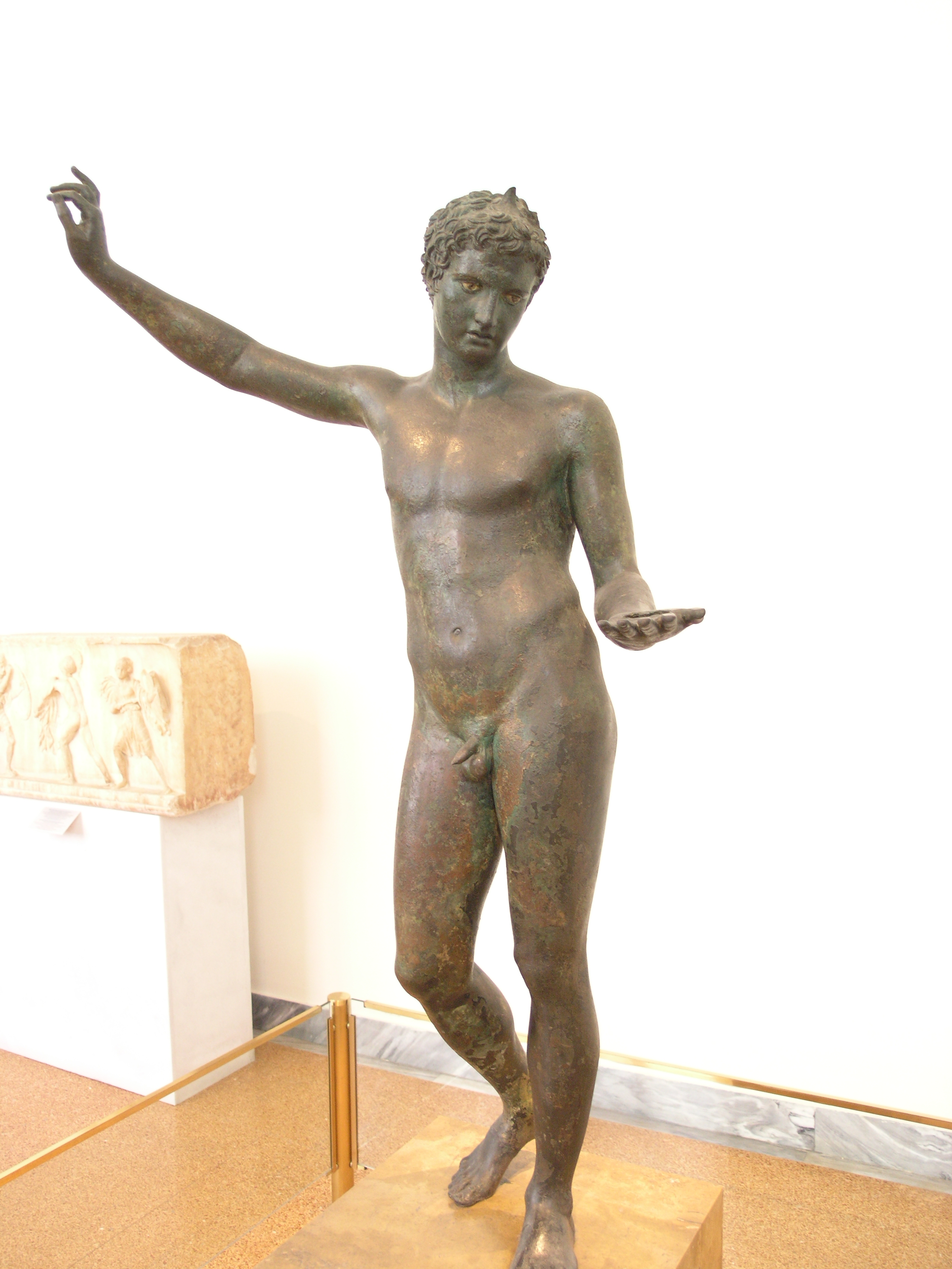 Marathon Youth or Ephebe of Marathon. Bronze statue of a young athlete, found in the sea near Marathon (Attic coast). The left hand was replaced at a later date by another shaped as a lamp. Work of the Praxiteles school, ca. 340-330 B.C.